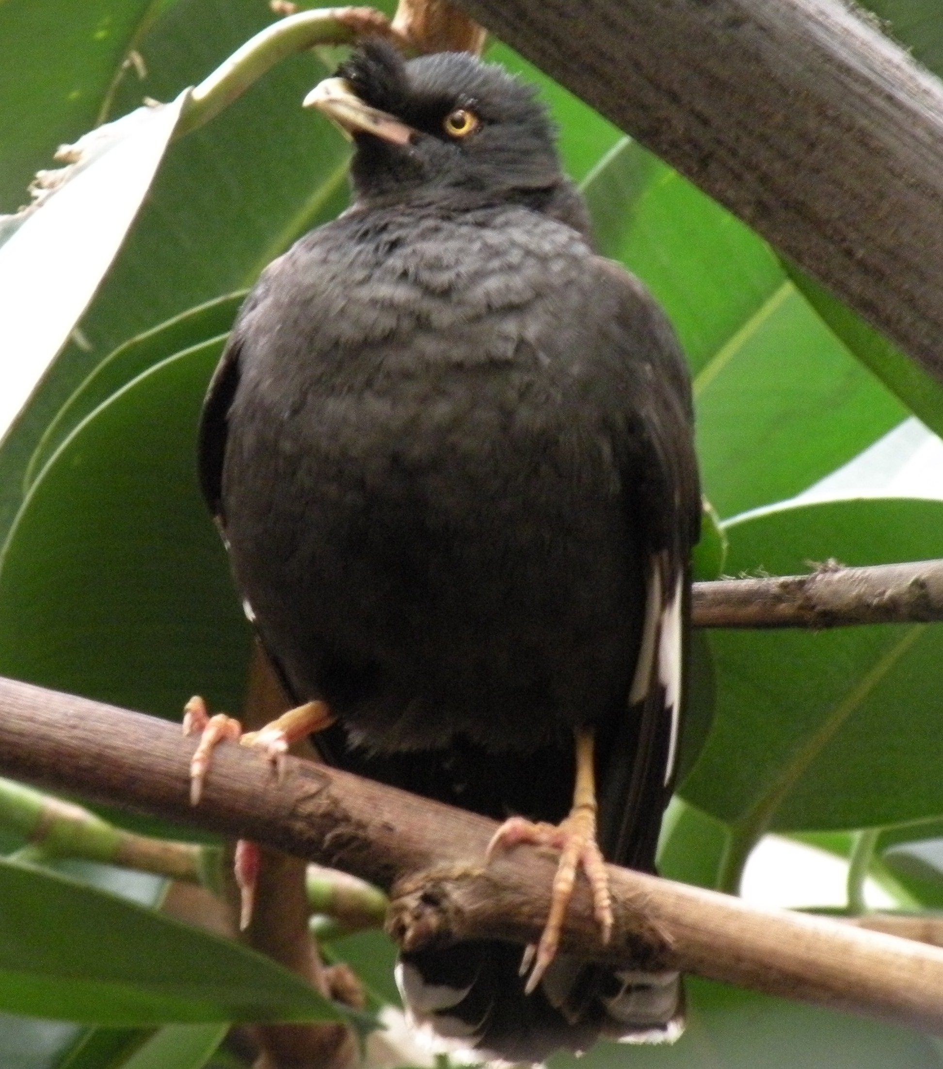 A Crested Myna (Acridotheres cristatellus) in Artis, Amsterdam